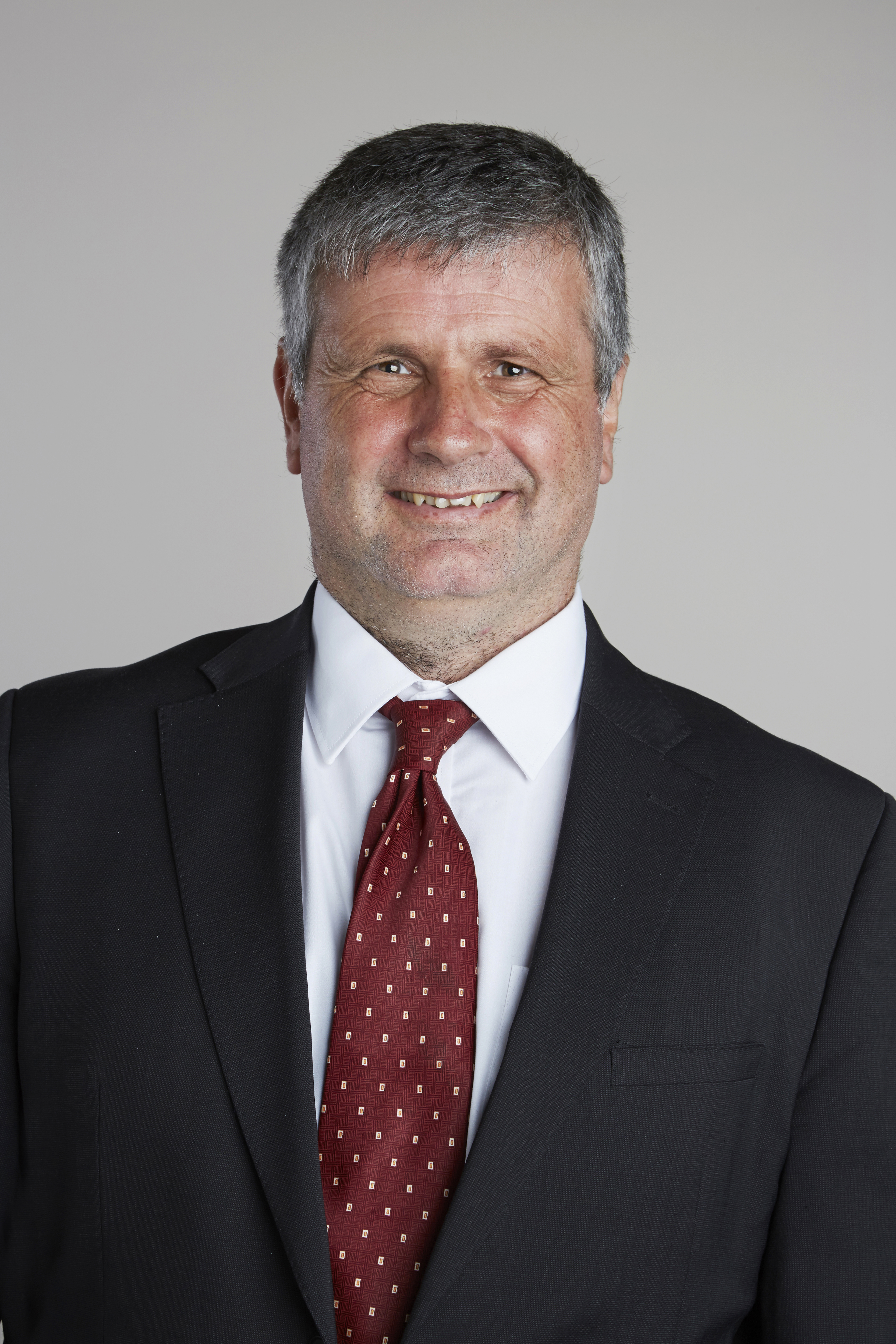 Mackenzie's research career has focused on the behaviour of strongly interacting electrons in metals and superconductors. His group places particular importance on achieving high levels of material purity in the single crystals that it grows and studies. He graduated with the 1986 Class Medal in Physics from the University of Edinburgh, worked at CERN in Geneva for year and then did his PhD at Cambridge, graduating in 1991. This was followed by research or staff positions at Cambridge (1991-97), Birmingham (1997-01), St Andrews (2001-) and the Max Planck Society (2012-). Mackenzie is a Fellow of the Institute of Physics, the Royal Society of Edinburgh and the American Physical Society, and Director and Scientific Member of the Max Planck Society. He was a co-recipient of the 2004 Daiwa-Adrian Prize and recipient of the 2011 Mott Medal of the Institute of Physics, and held a Royal Society University Research Fellowship (1993-01) and Royal Society-Wolfson Research Merit Award (2011-13). Prize lectures have included the 1999 Mott lecture and a 2007 Ehrenfest colloquium in Leiden. Attribution: The Royal Society